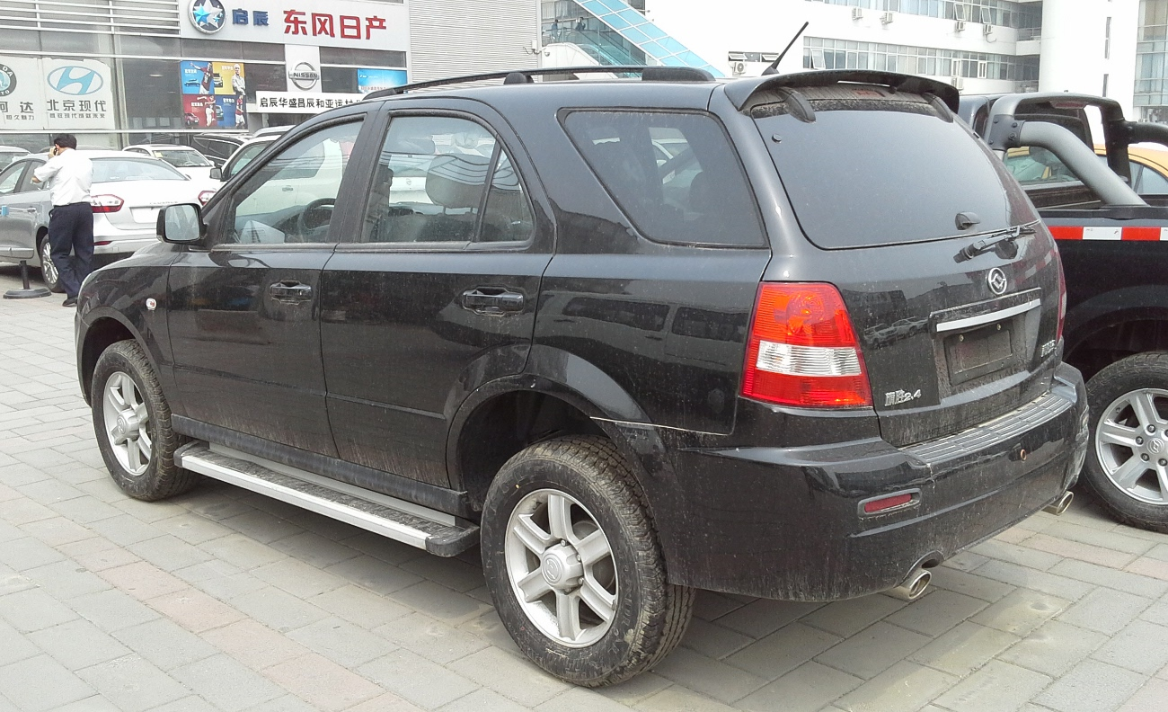 Huanghai Landscape photographed in Beijing, China.